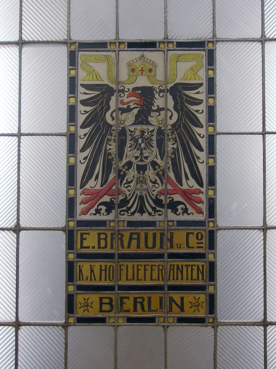 Painted glass showing the status of purveyor to the Prussian court (Hoflieferant) of E. Braun & Co. in Vienna.